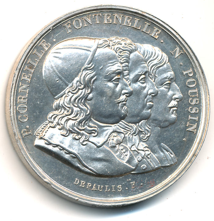 Medal of Pierre Corneille (1606-1684), Bernard Le Bovier de Fontenelle (1657-1757) and Nicolas Poussin (1594-1665).